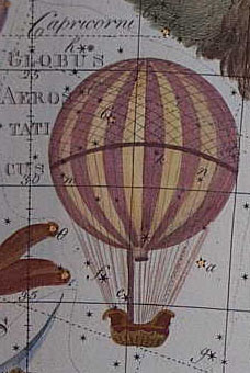 Johann Elert Bode (German, 1747-1826): Uranographia, 1801, detail showing the constellation Globus Aerostaticus originally created by Jérôme Lalande in 1798 which fell out of use by astronomers.